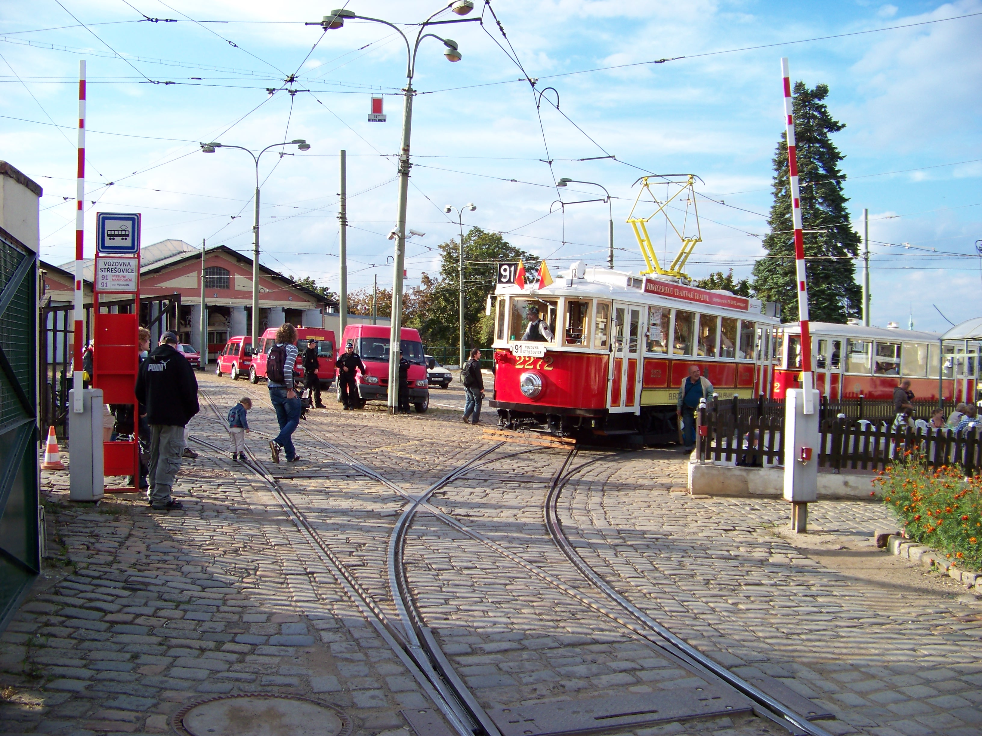 Prague-Střešovice, the Czech Republic. Heritage tram line in the tram depot.